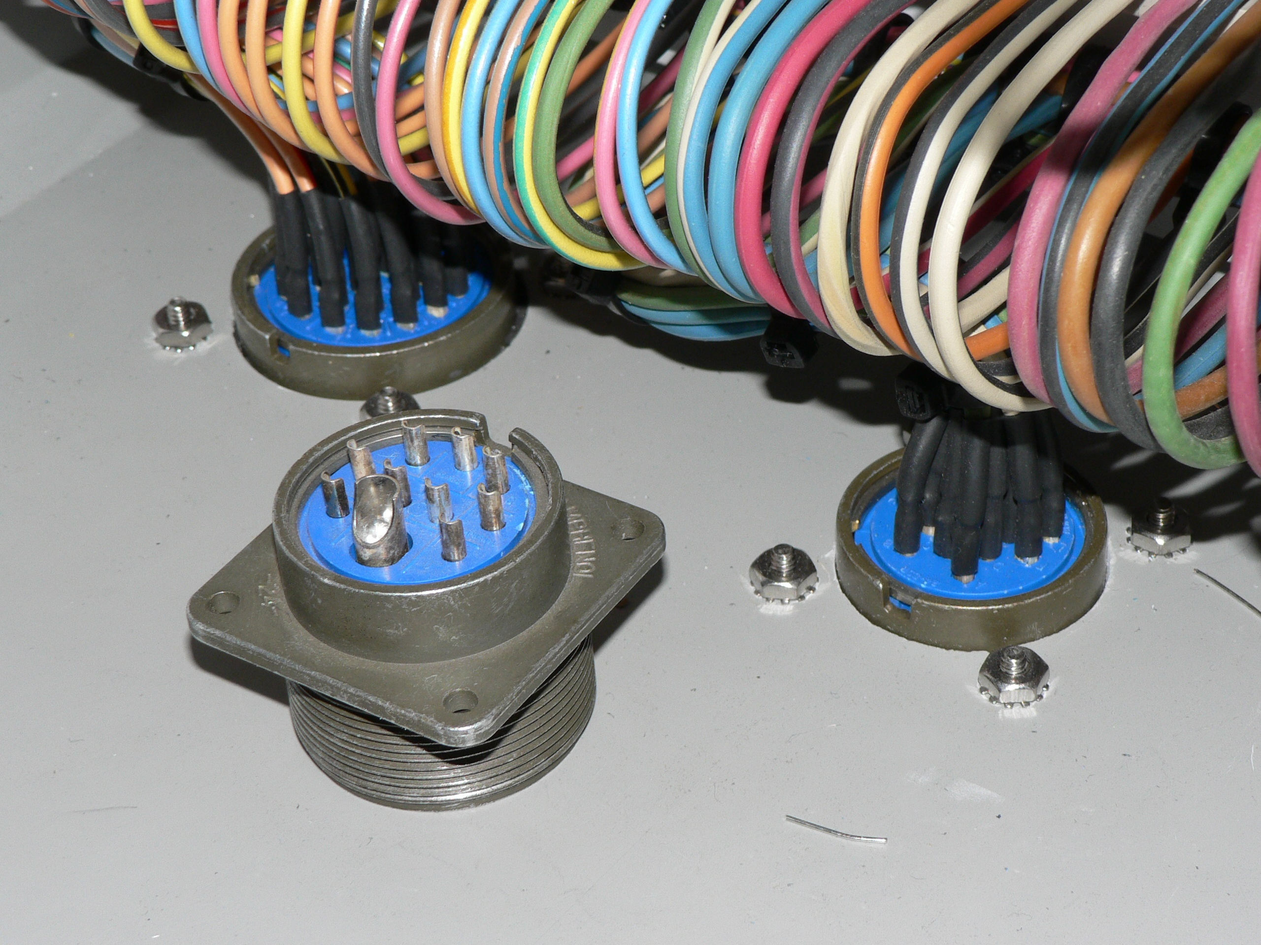 I, User:W0lfie, took this photo.